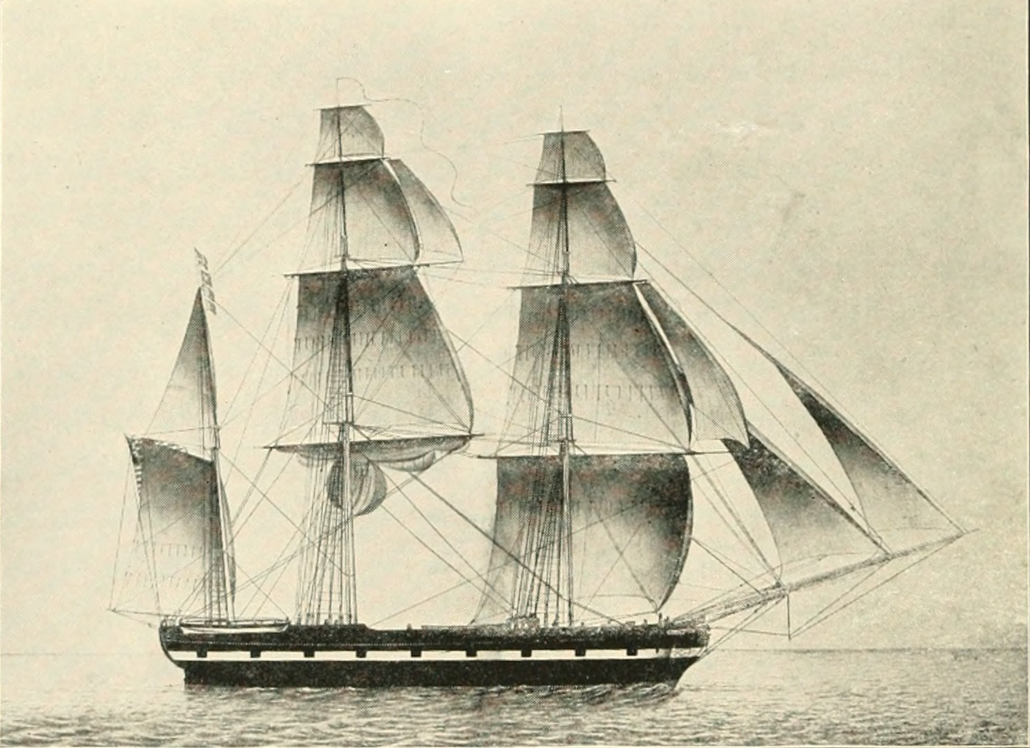 The Canton Packet, bark built for J. & T. H. Perkins of Boston. Quote: Page 9, at the age of thirteen Robert Bennett Forbes went as a cabin boy on the Canton Packet under Captain John King and he was on her for altogether six years, becoming an officer at the age of sixteen.